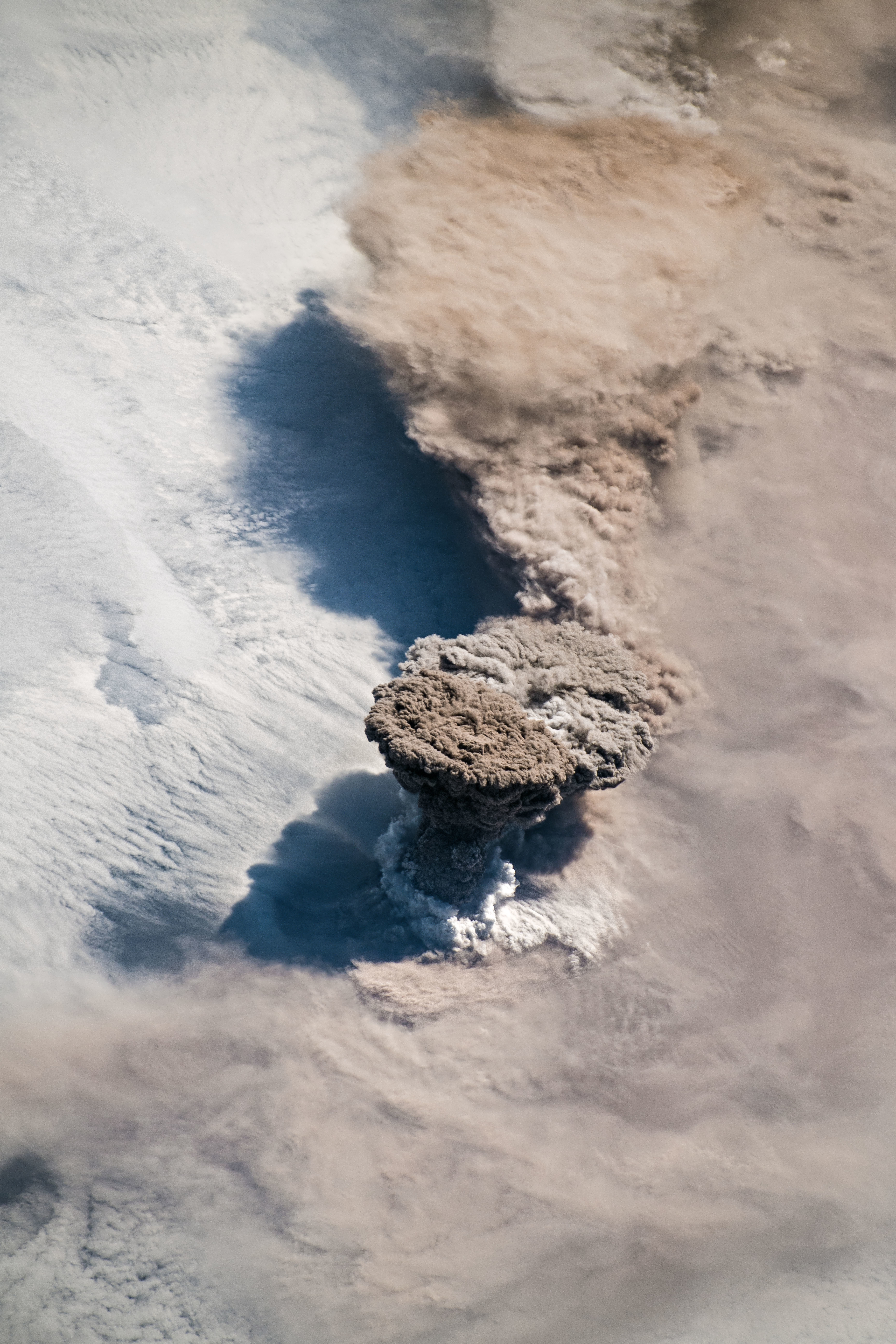 Unlike some of its perpetually active neighbors on the Kamchatka Peninsula, Raikoke Volcano on the Kuril Islands rarely erupts. The small, oval-shaped island most recently exploded in 1778 and 1924. The dormant period ended around 4:00 a.m. local time on June 22, 2019, when a vast plume of ash and volcanic gases shot up from its 700-meter-wide crater. Several satellites — as well as astronauts on the International Space Station — observed as a thick plume rose and then streamed east as it was pulled into the circulation of a storm in the North Pacific. On the morning of June 22, astronauts shot a photograph of the volcanic plume rising in a narrow column and then spreading out in a part of the plume known as the umbrella region. That is the area where the density of the plume and the surrounding air equalize and the plume stops rising. The ring of clouds at the base of the column appears to be water vapor. Learn more: Credit: NASA NASA image use policy. NASA Goddard Space Flight Center enables NASA’s mission through four scientific endeavors: Earth Science, Heliophysics, Solar System Exploration, and Astrophysics. Goddard plays a leading role in NASA’s accomplishments by contributing compelling scientific knowledge to advance the Agency’s mission. Follow us on Twitter Like us on Facebook Find us on Instagram